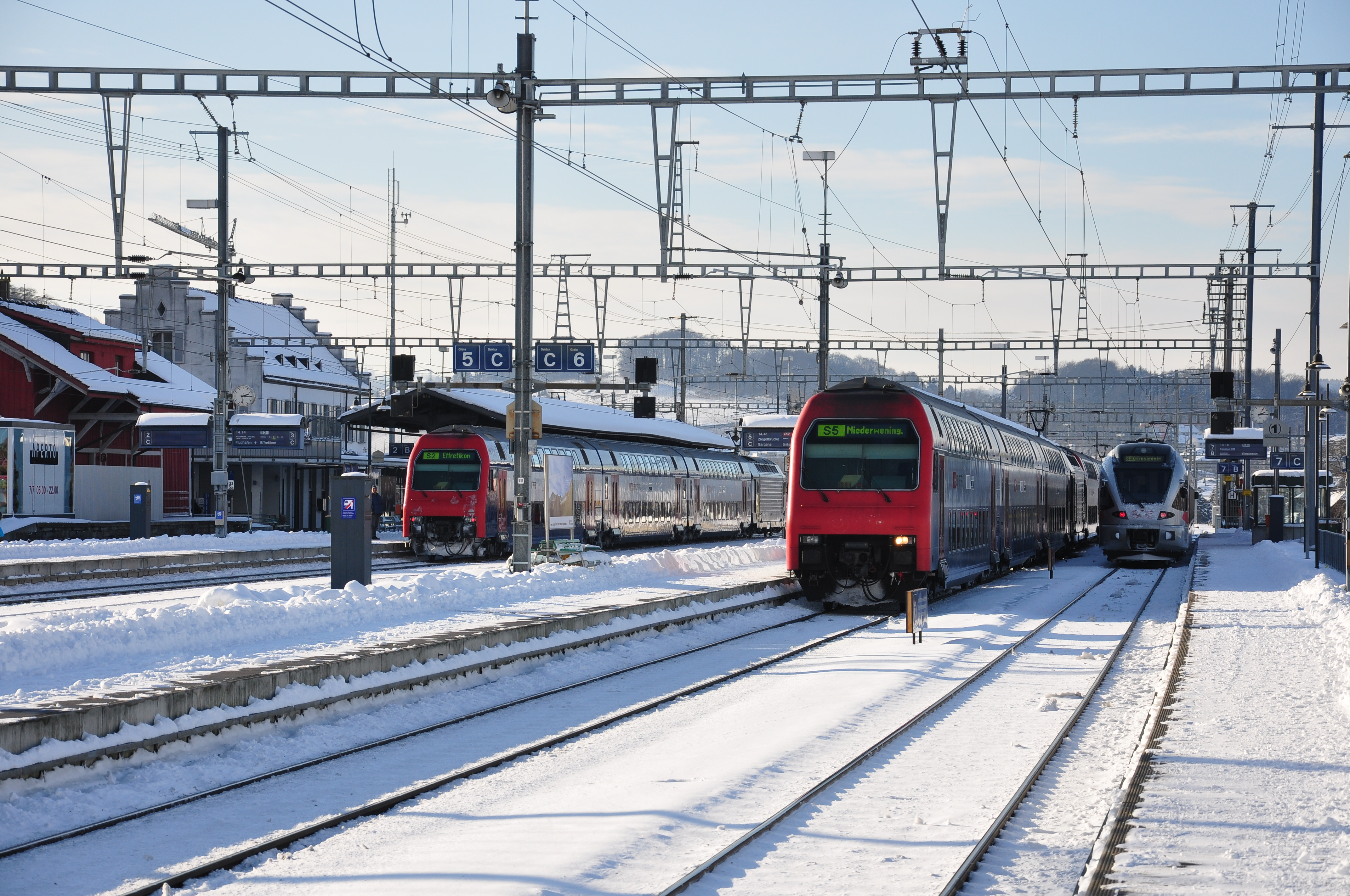 Pfäffikon (SZ) train station, S-Bahn Zürich line S2 to the left, S5 line towards Rapperswil and S40 to the right.